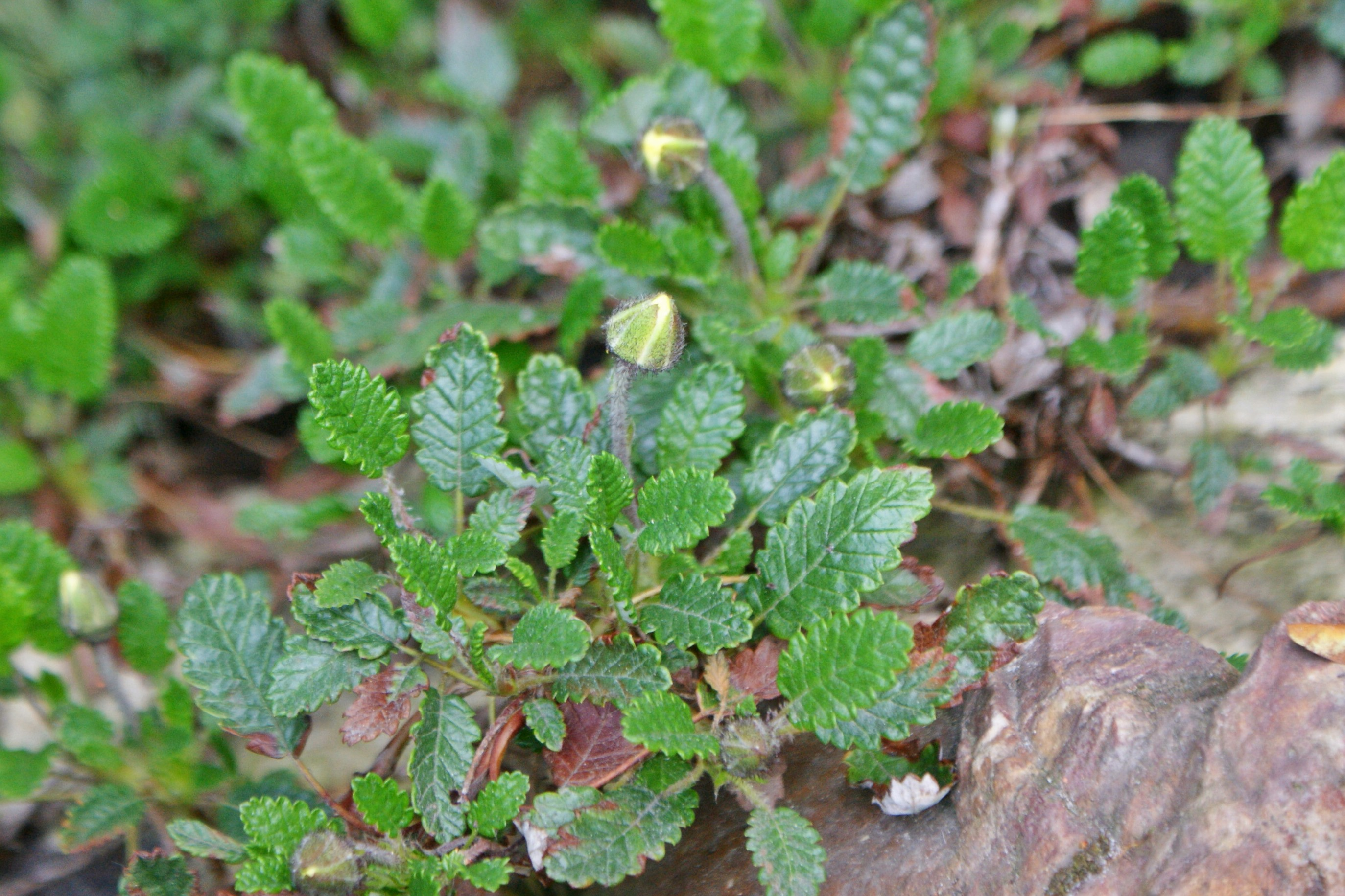 Dryas octopetala, flower bud